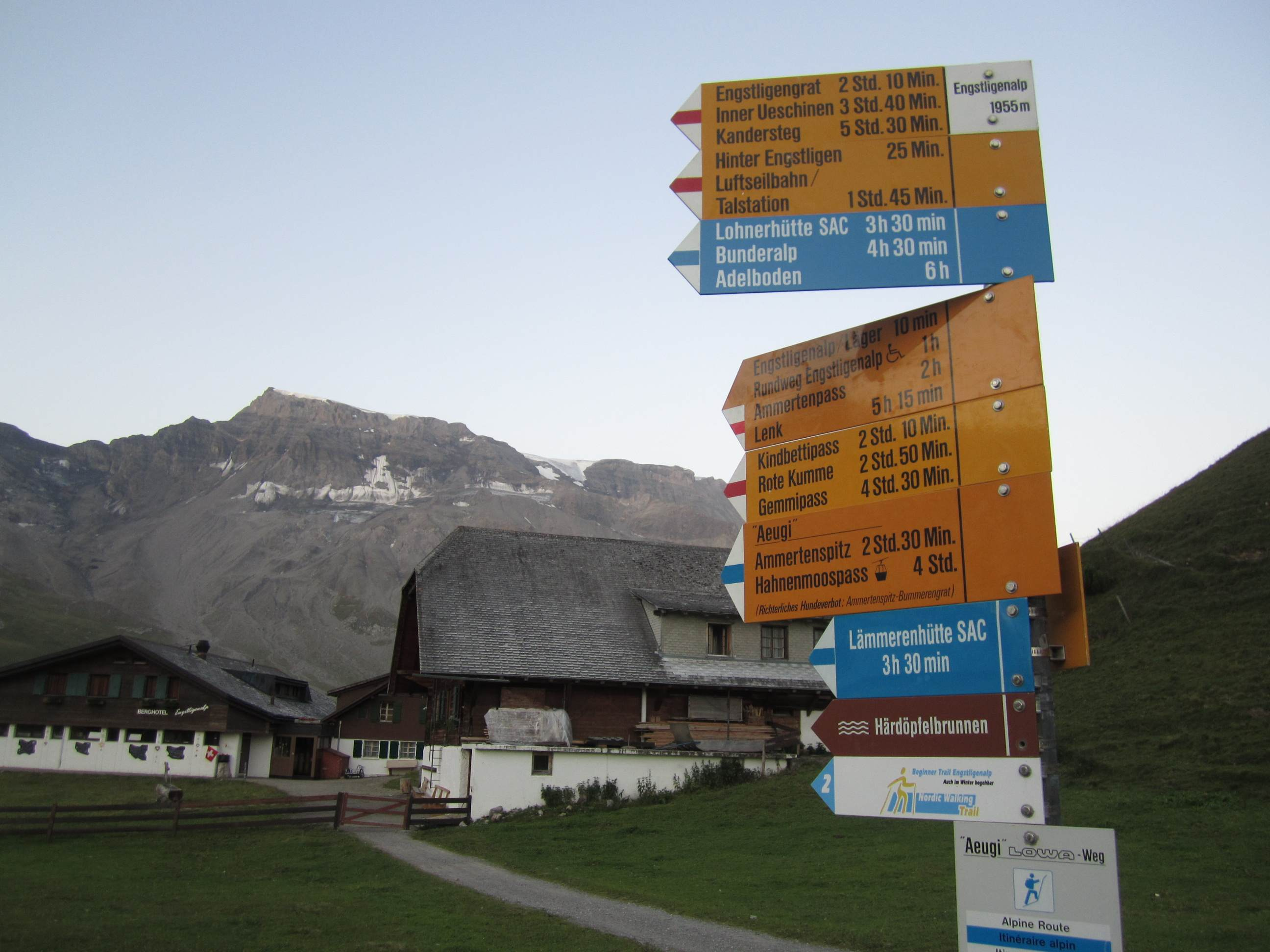 Swiss hiking signpost Engstligenalp